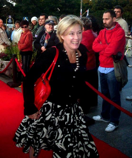 Polish actress Małgorzata Potocka at opening of the XXXIV Polish Film Festival in Gdynia 2009.